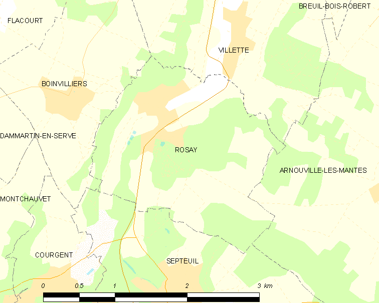 Map of French municipality Rosay